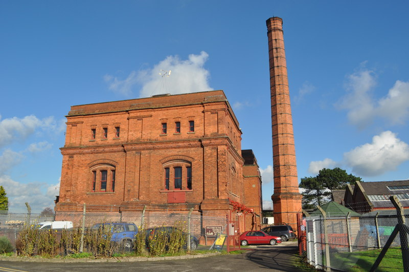 Claymills Pumping Station, near to Stretton, Staffordshire, Great Britain. A view of the 1885 sewage pumping station, compare to this SK2625 : Clay Mills sewage pumping station (disused) to see how far the site has progressed. There are four beam engines on site, the two in the nearet building are pending restoration while the other two are in working order. There are also loads of other smaller engines that have been restored and are usually in steam.